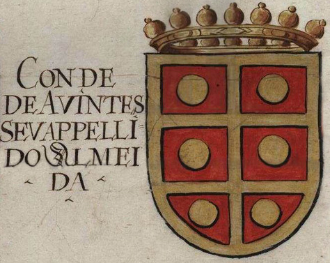 The coat of arms of the Count of Avintes as depicted in the Thezouro de Nobreza by Francisco Rey, India King of Arms